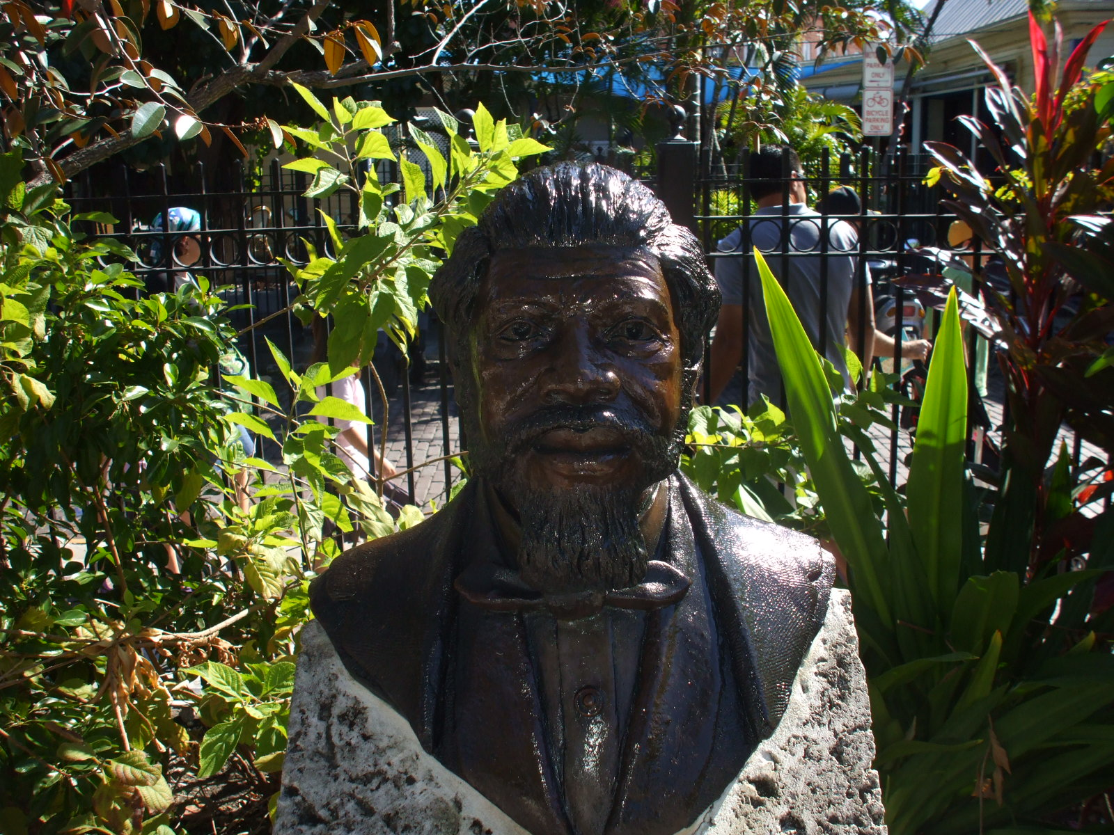 Sandy Cornish statue taken in Mallory Square - Key West, FL